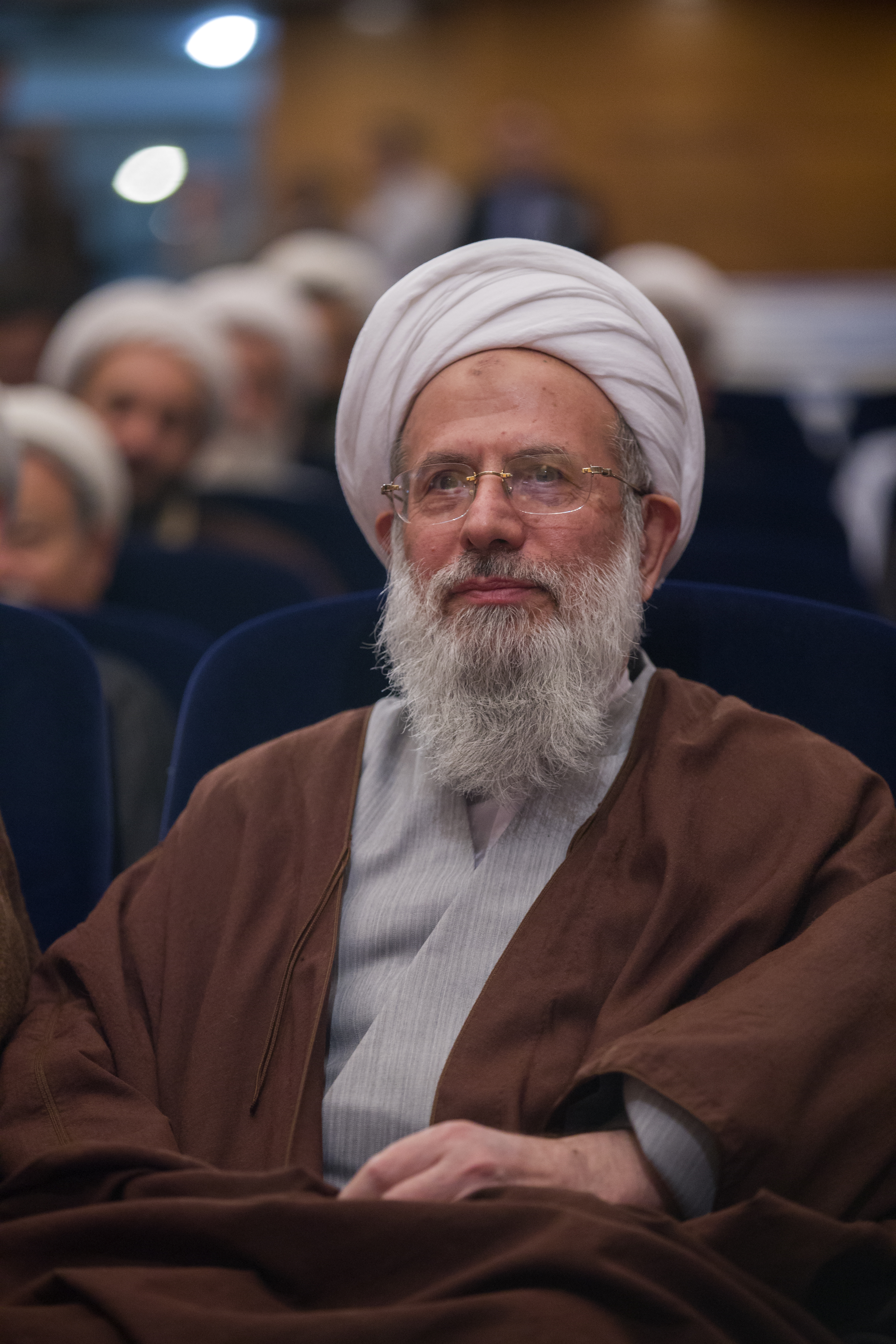 Mohammad Reyshahri also known as Mohammad Mohammadi-Nik, (born 29 October 1946), best known as Reyshahri, is an Iranian politician and cleric who was the first Minister of Intelligence, served from 1984 to 1989 in cabinet of Prime Minister Mir-Hossein Mousavi.